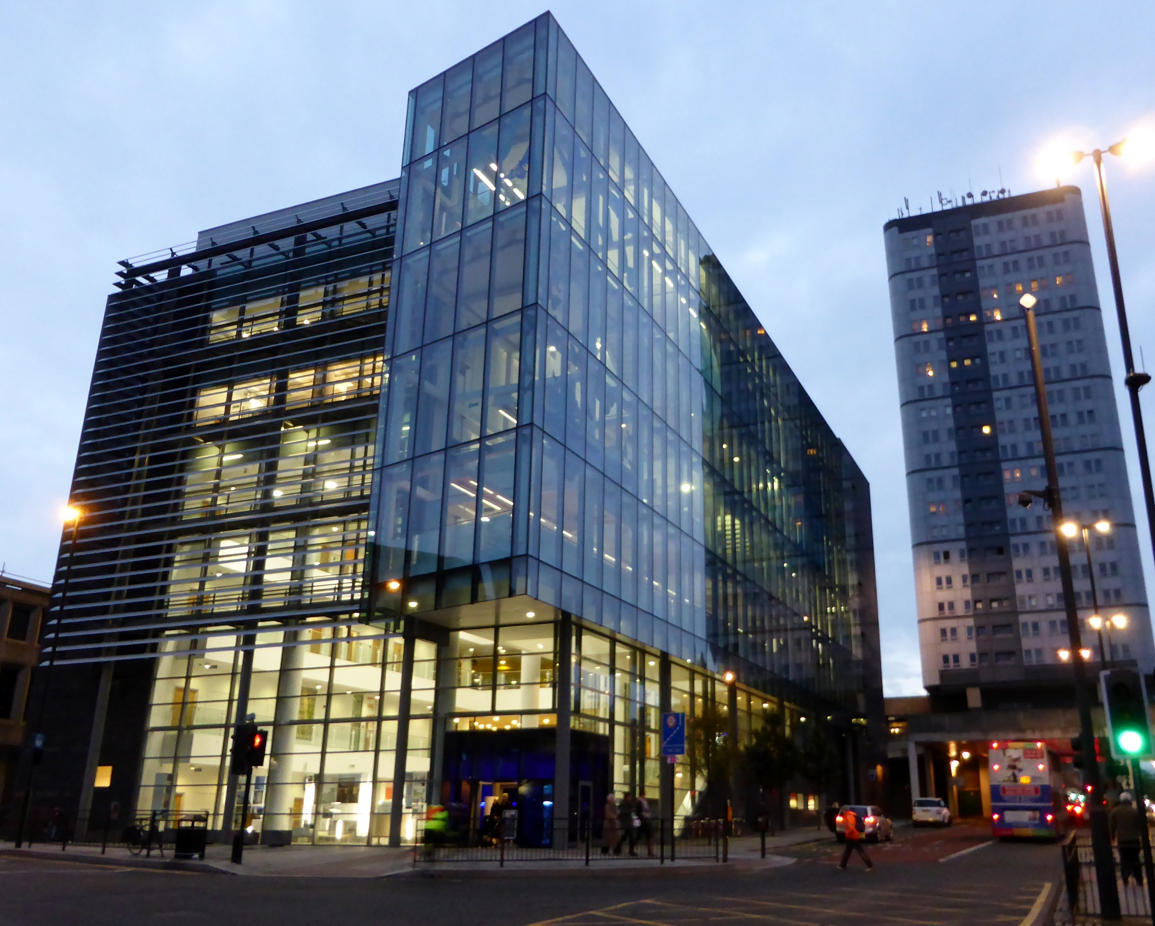 Image of Newcastle Library. Work by a photographer on Flickr called Yellowbook. Creative commons 2.0.